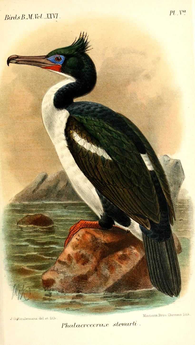 Phalacrocorax stewarti = Phalacrocorax chalconotus, Bronze Shag